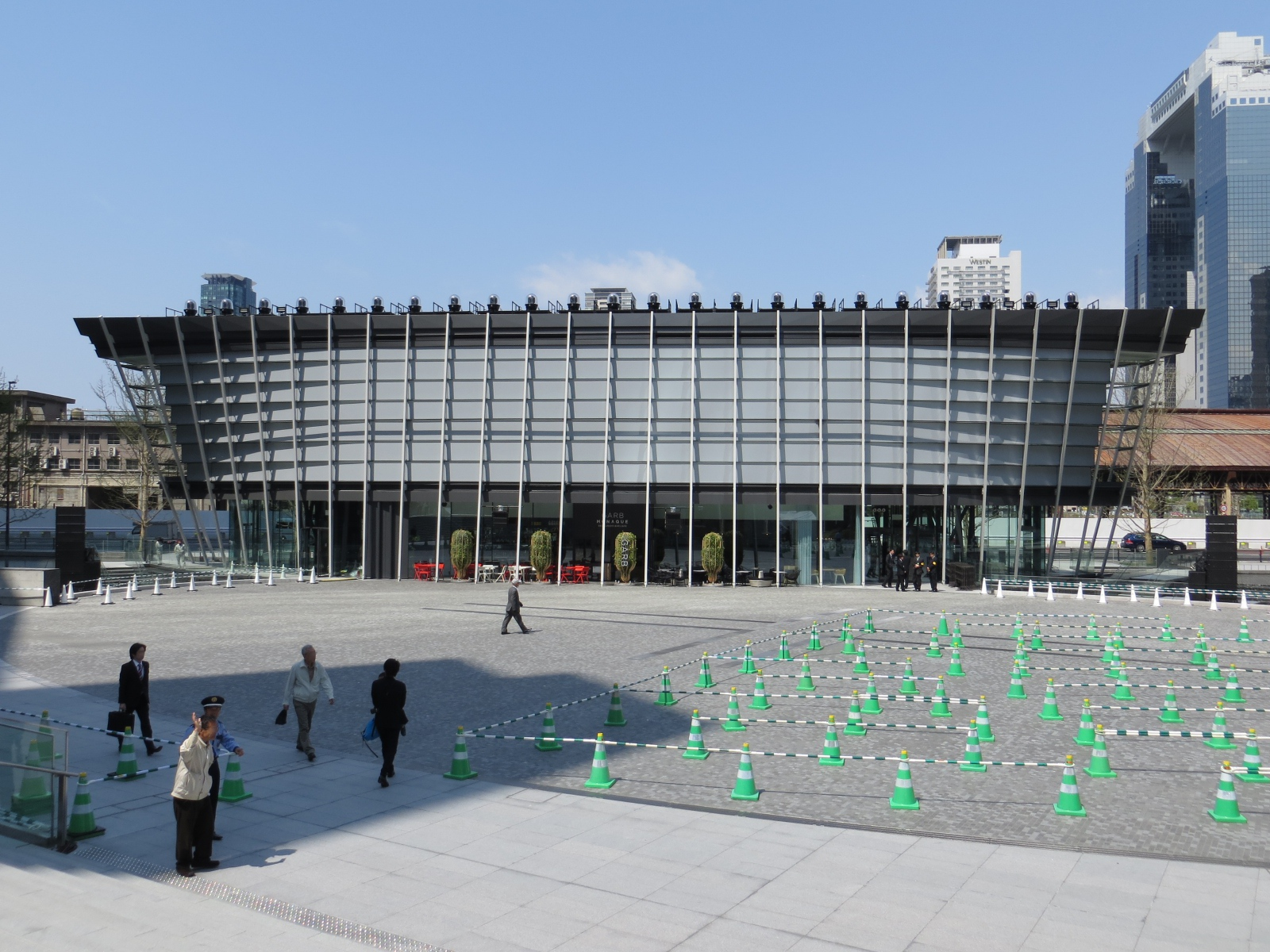 "Umekita SHIP" from GRAND FRONT OSAKA.